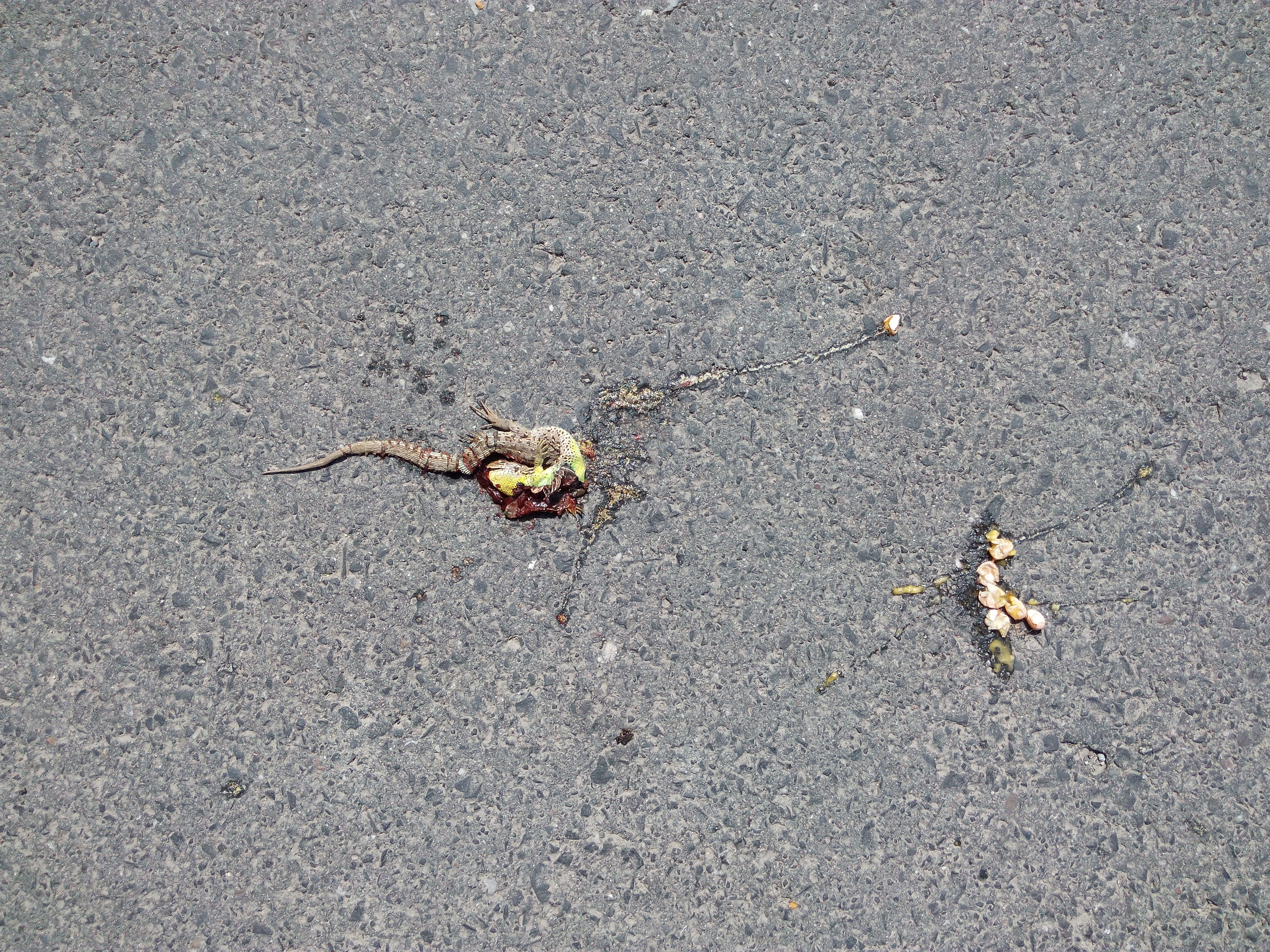 A roadkill. The lizard pictured is a dead sand lizard female (Lacerta agilis), having its eggs expulsed out of the body by the impact.